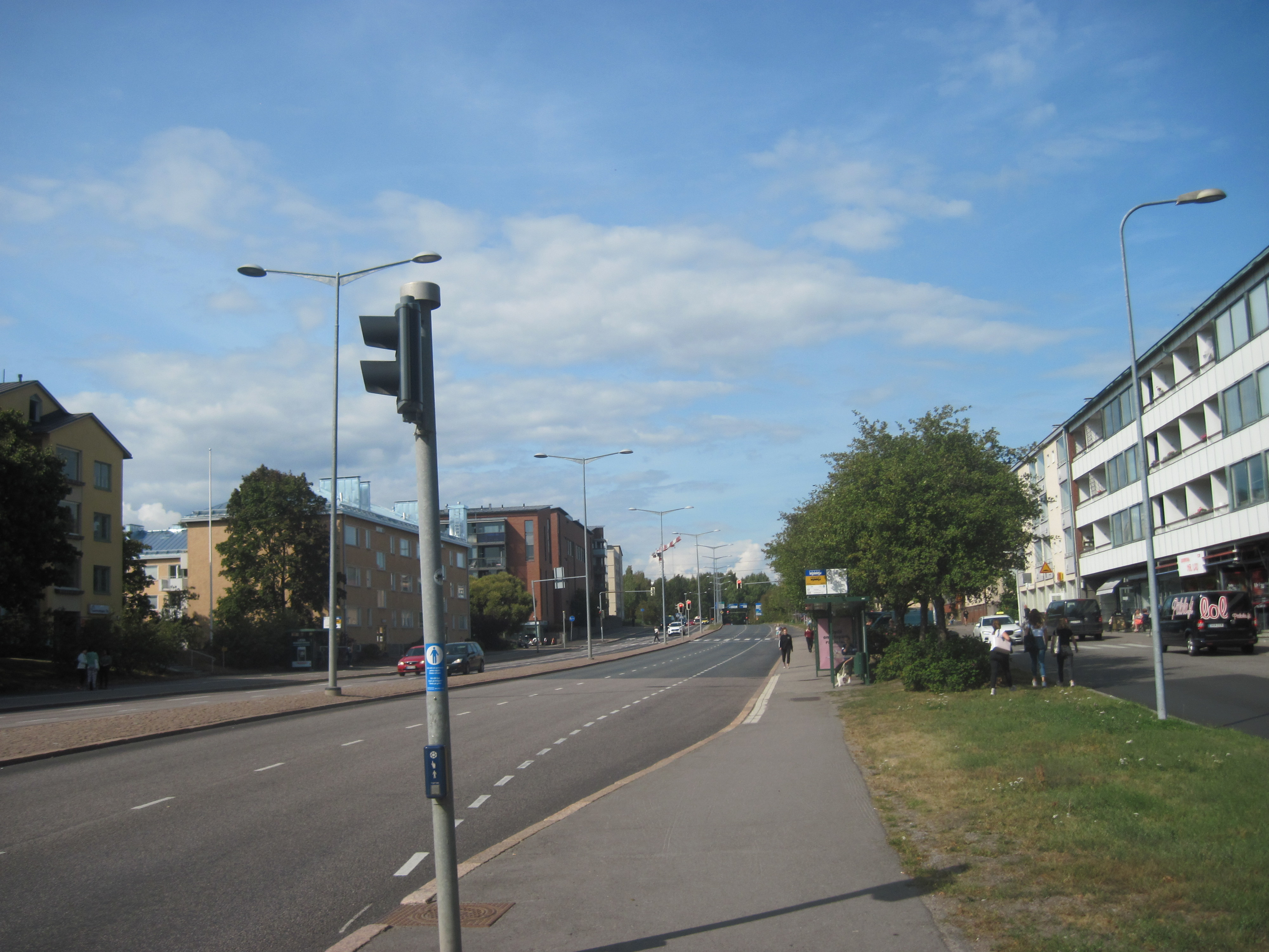 Vihdintie at Haaga, Helsinki